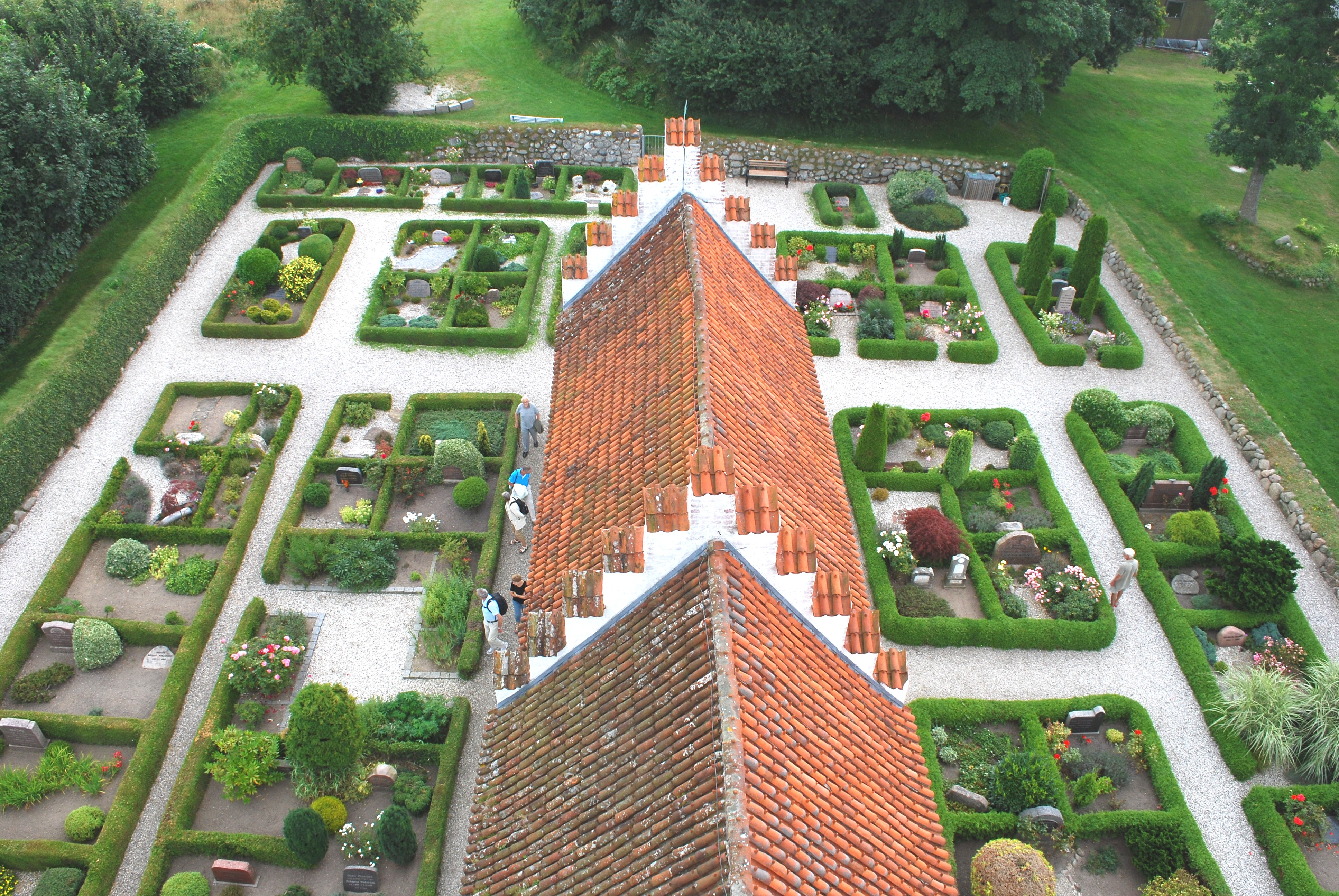 Tunø Kirke - Tunø - Denmark